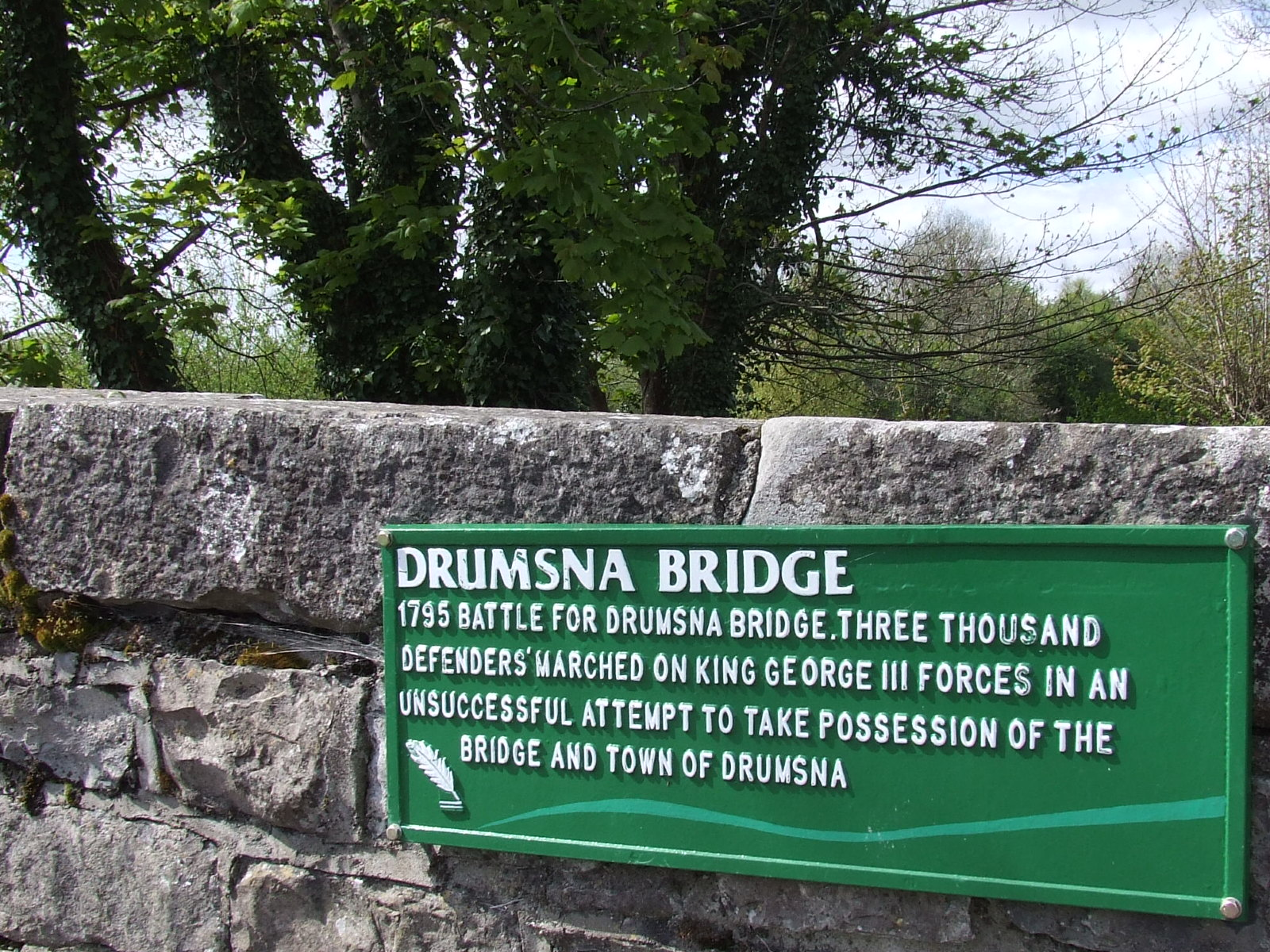 Plaque on bridge at Drumsna, County Leitrim telling of the attack on the bridge against the forces of King Geroge III in 1795.